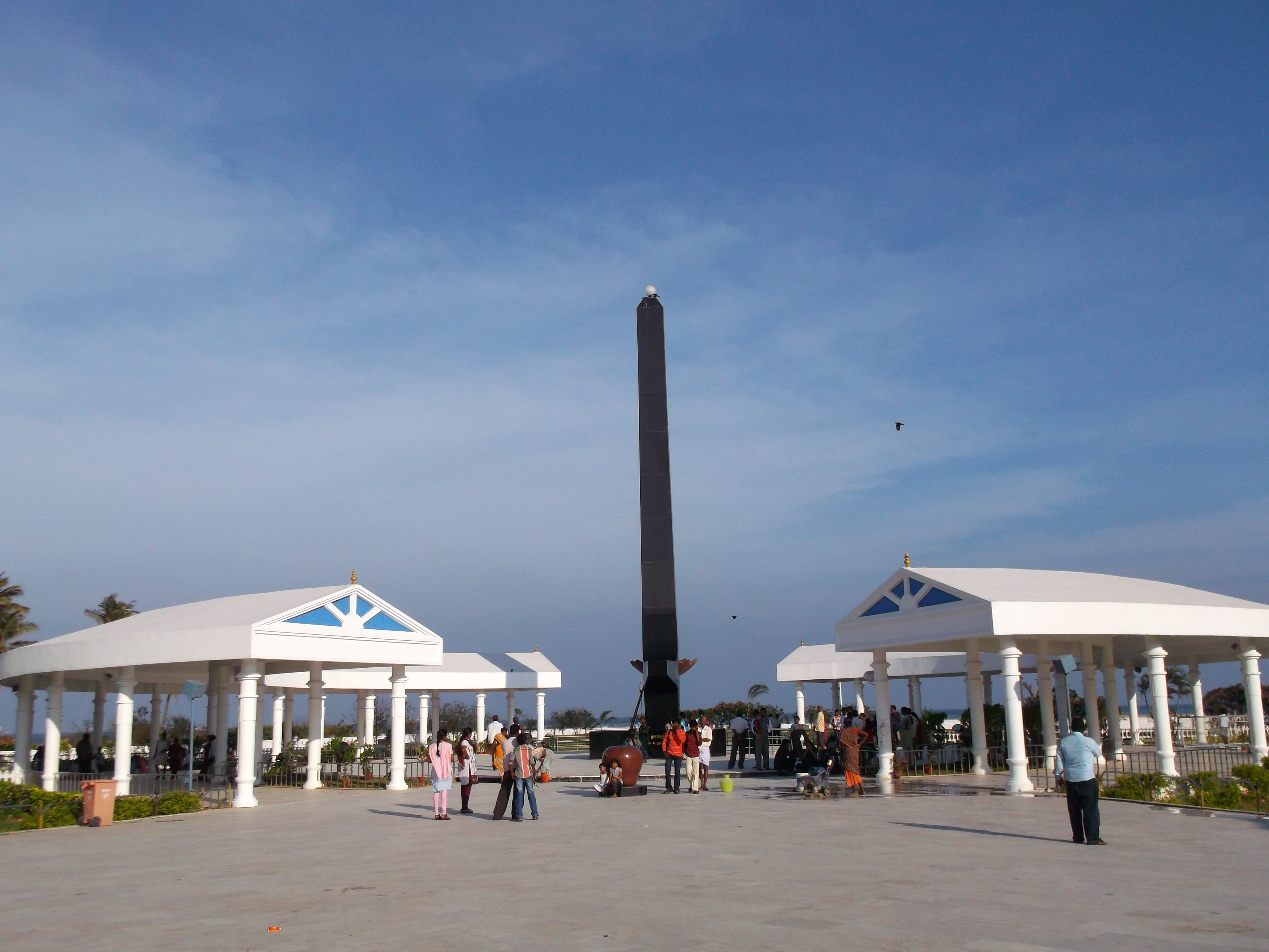 Chennai Anna Memorial, Full View, taken on 2-Feb-2013 at around 4.00 pm